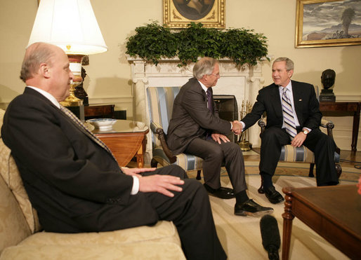 President George W. Bush shakes the hand of Porter Goss Friday, May 5, 2006, in the Oval Office after the Director of the Central Intelligence Agency announced his resignation. The President thanked him for his service and said of Director Goss, "He honors the proud history of the CIA." Looking on is Ambassador John Negroponte, Director of National Intelligence.